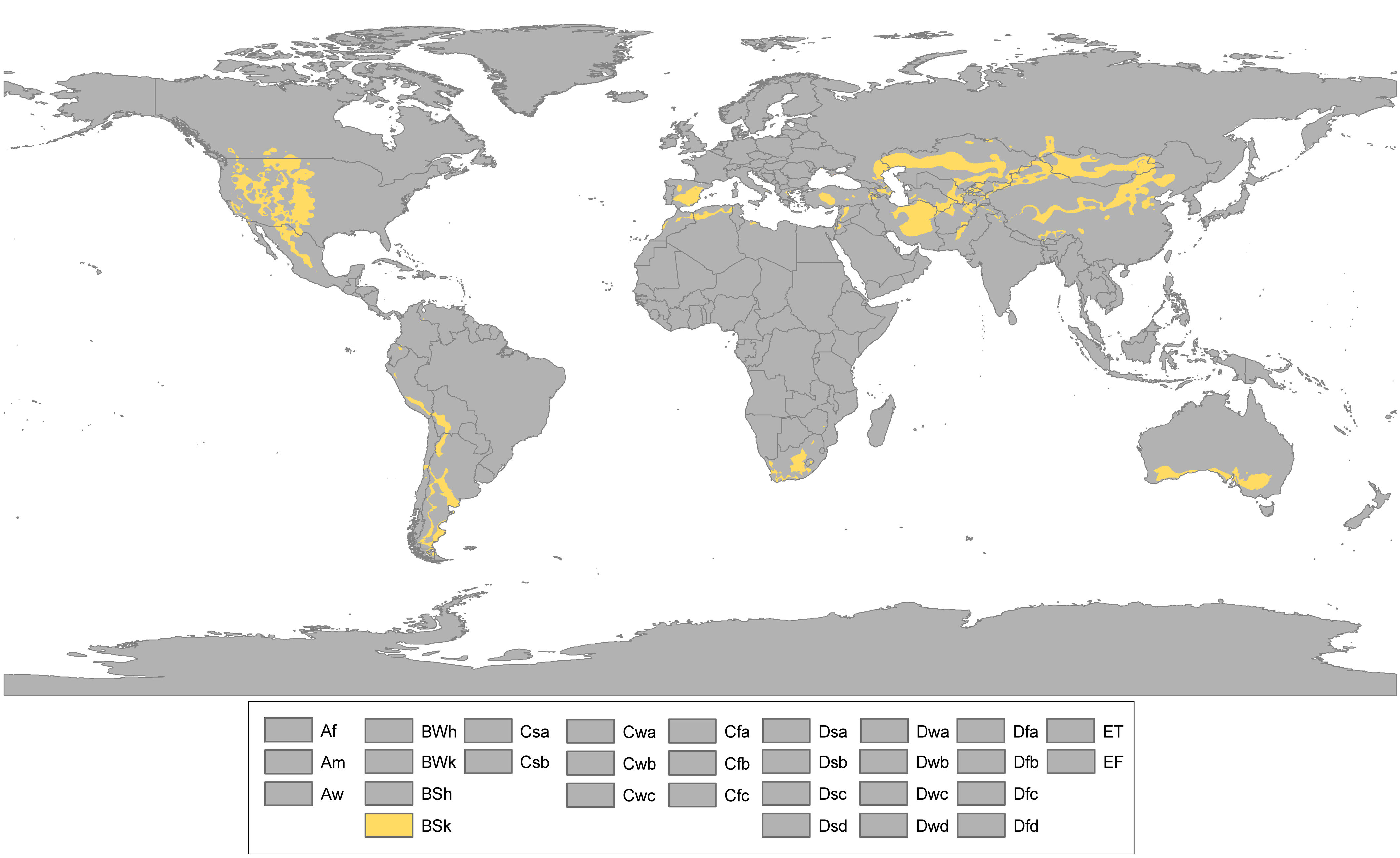 Updated world map of the Köppen-Geiger climate classification. Cold semi-arid climate (BSk)